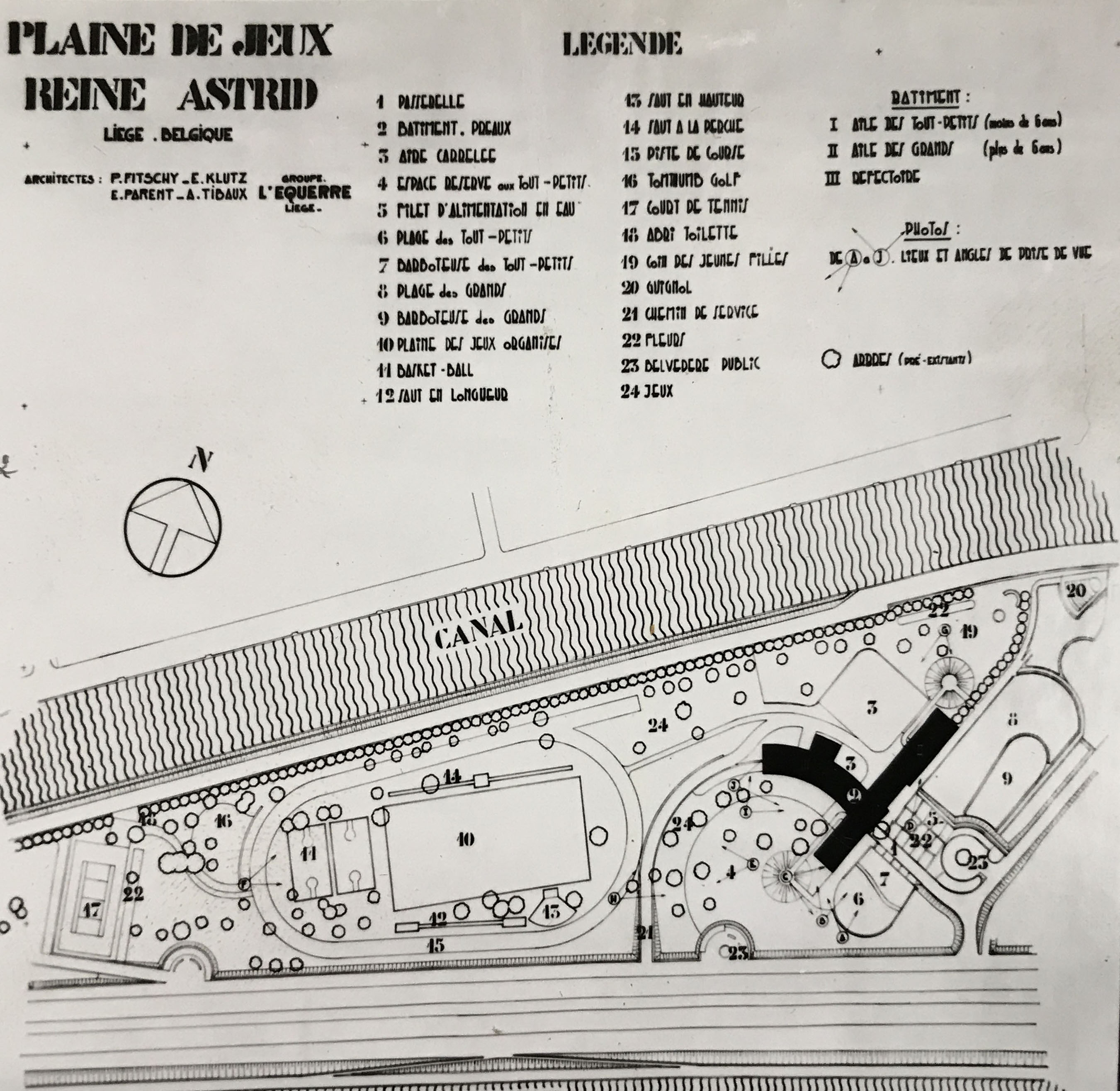 Building built by the Liege architect group called Equerre, built for the international exhibition of 1939